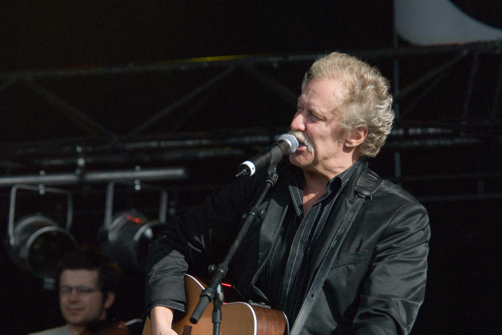 Kris De Bruyne, 0110 concert on 1 November 2006 in Gent, Belgium